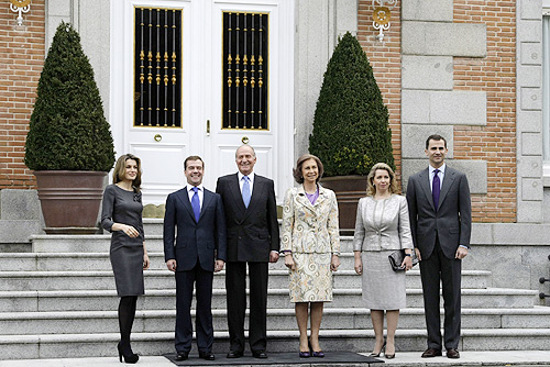 ZARZUELA PALACE, MADRID. Princess Letizia, Dmitry Medvedev, King Juan Carlos I, Queen Sofia, Svetlana Medvedeva, Prince Felipe.